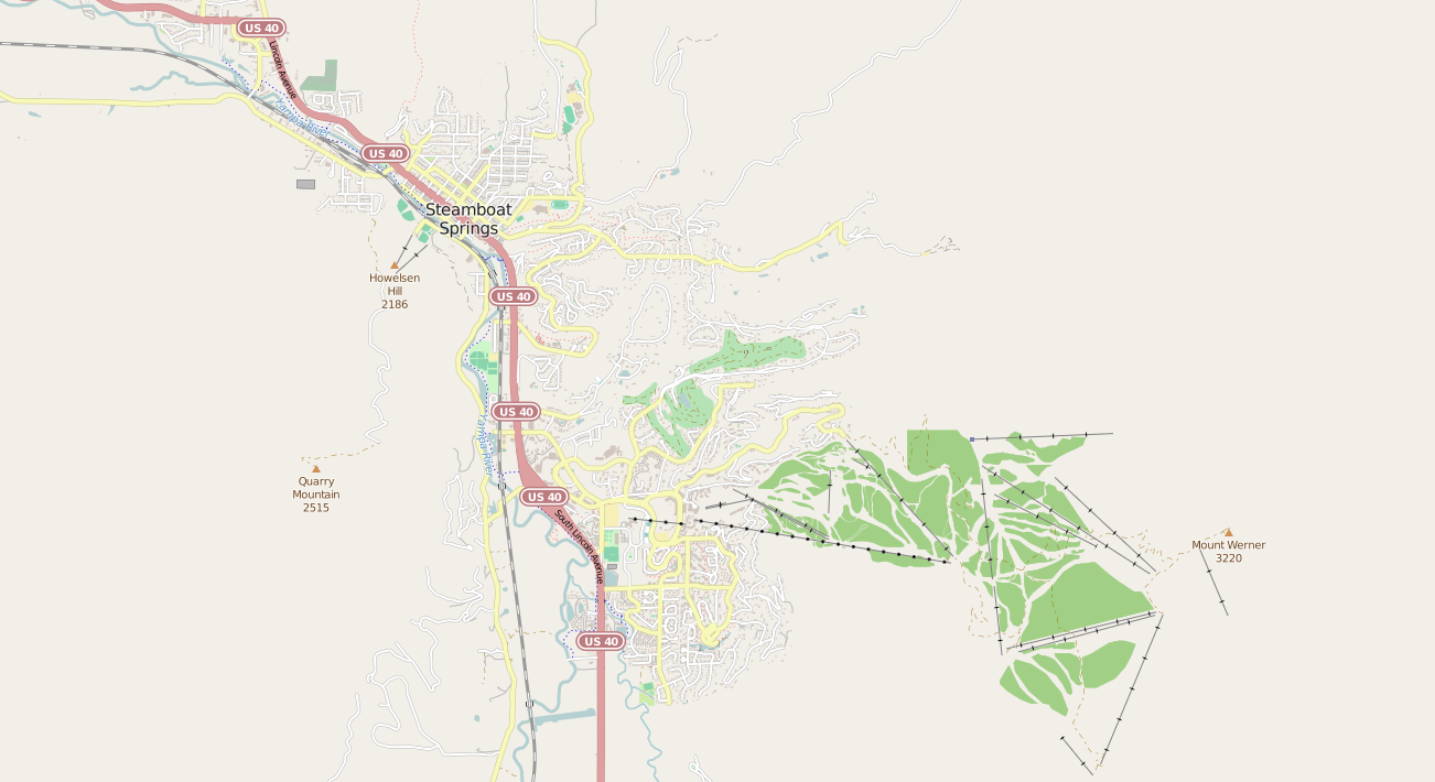 This map may be incomplete, and may contain errors. Don't rely solely on it for navigation.